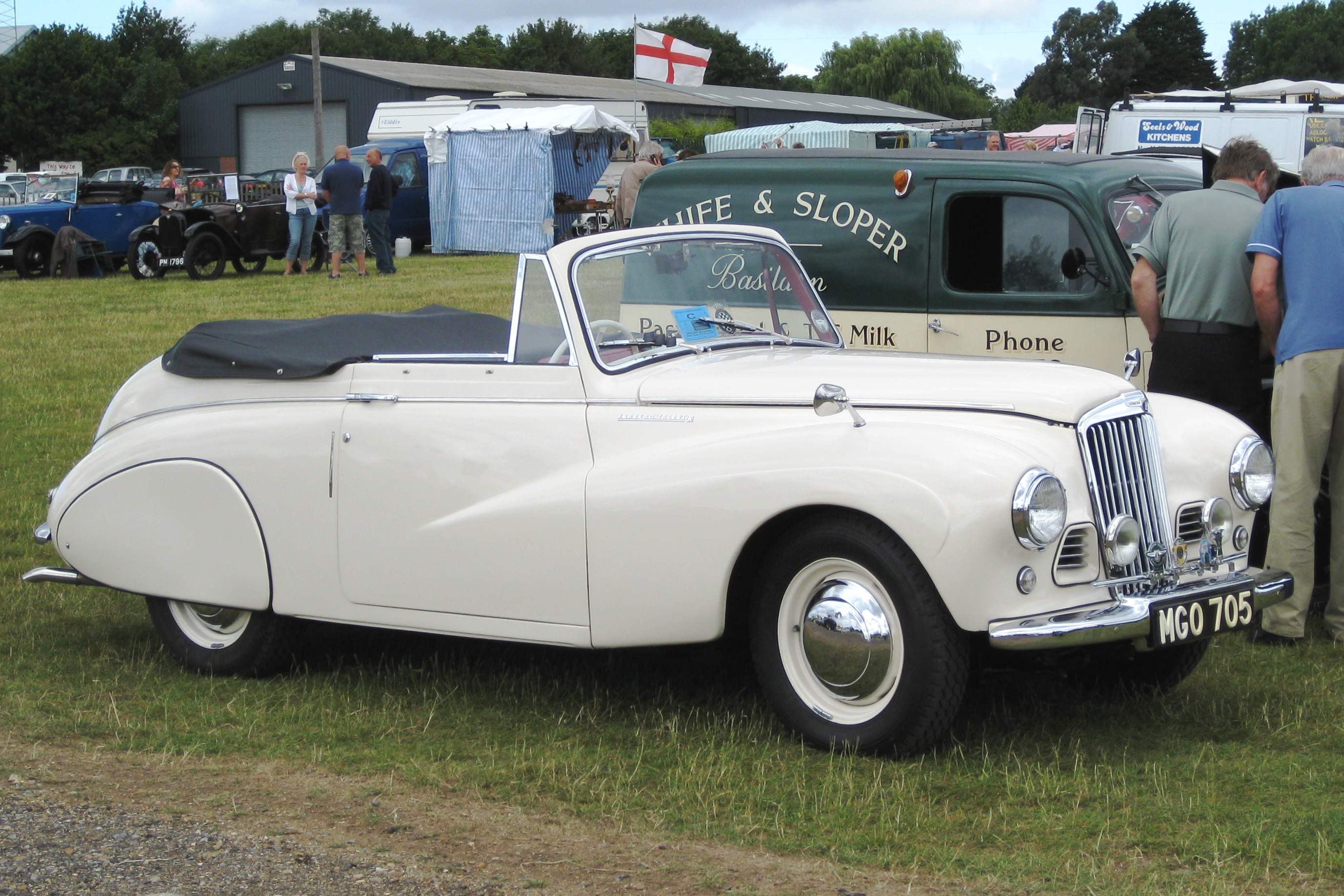 Sunbeam-Talbot 90 Mk II cabriolet in Essex